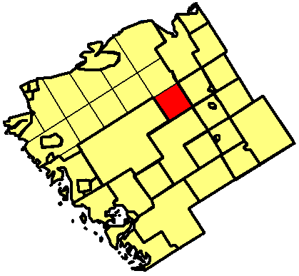 Locator map for Lount Township, Ontario